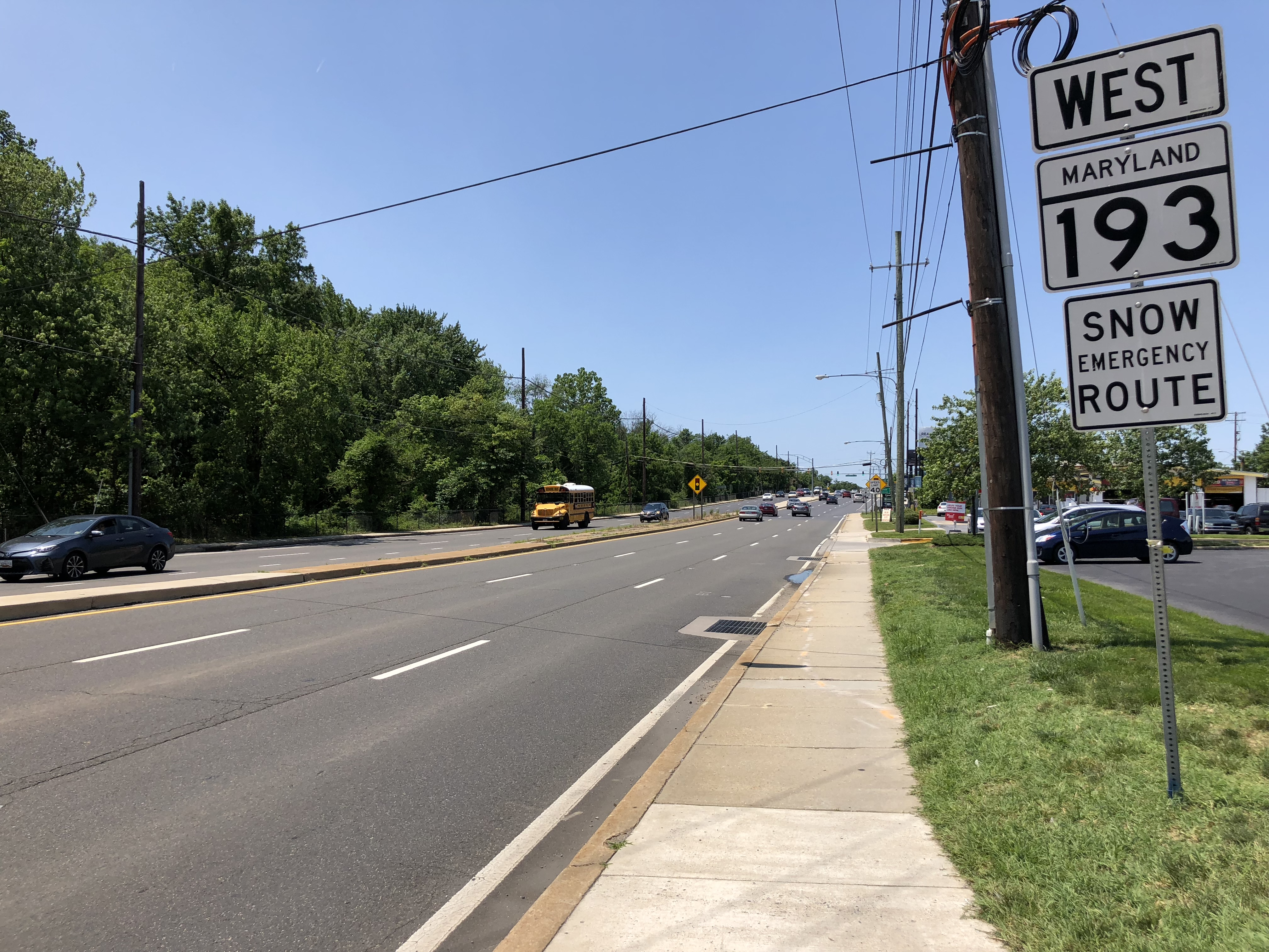 View west along Maryland State Route 193 (Greenbelt Road) at 57th Avenue in Berwyn Heights, Prince George's County, Maryland